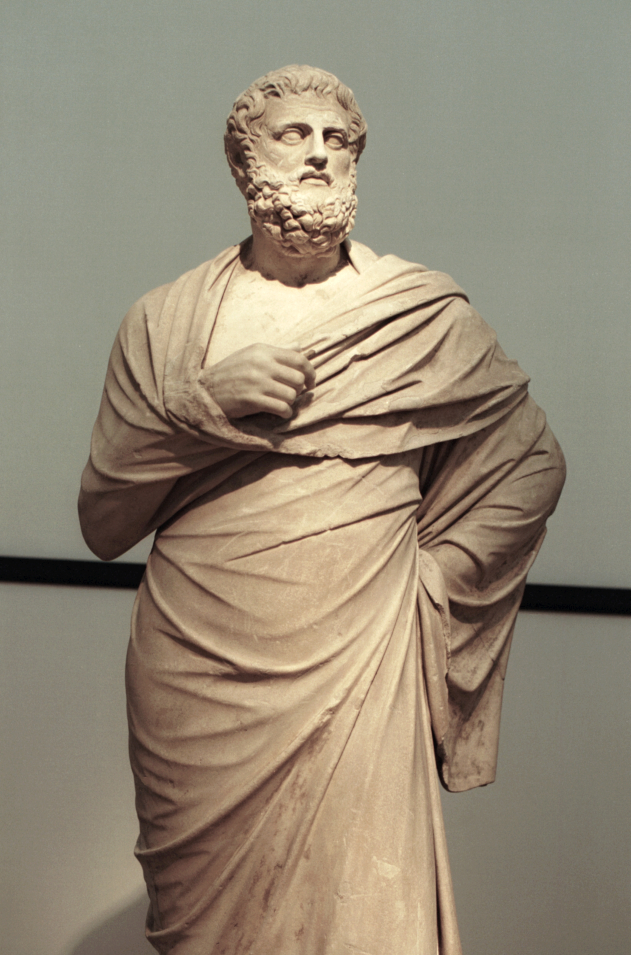 Sophocles (Sofokles). Roman marble statue from the time around 30 BC from Terracina, after Greek bronze statue from the years 340-330 BC. Naples National Archaeological Museum. Photo from the exhibition Klassik 2002 in Berlin.